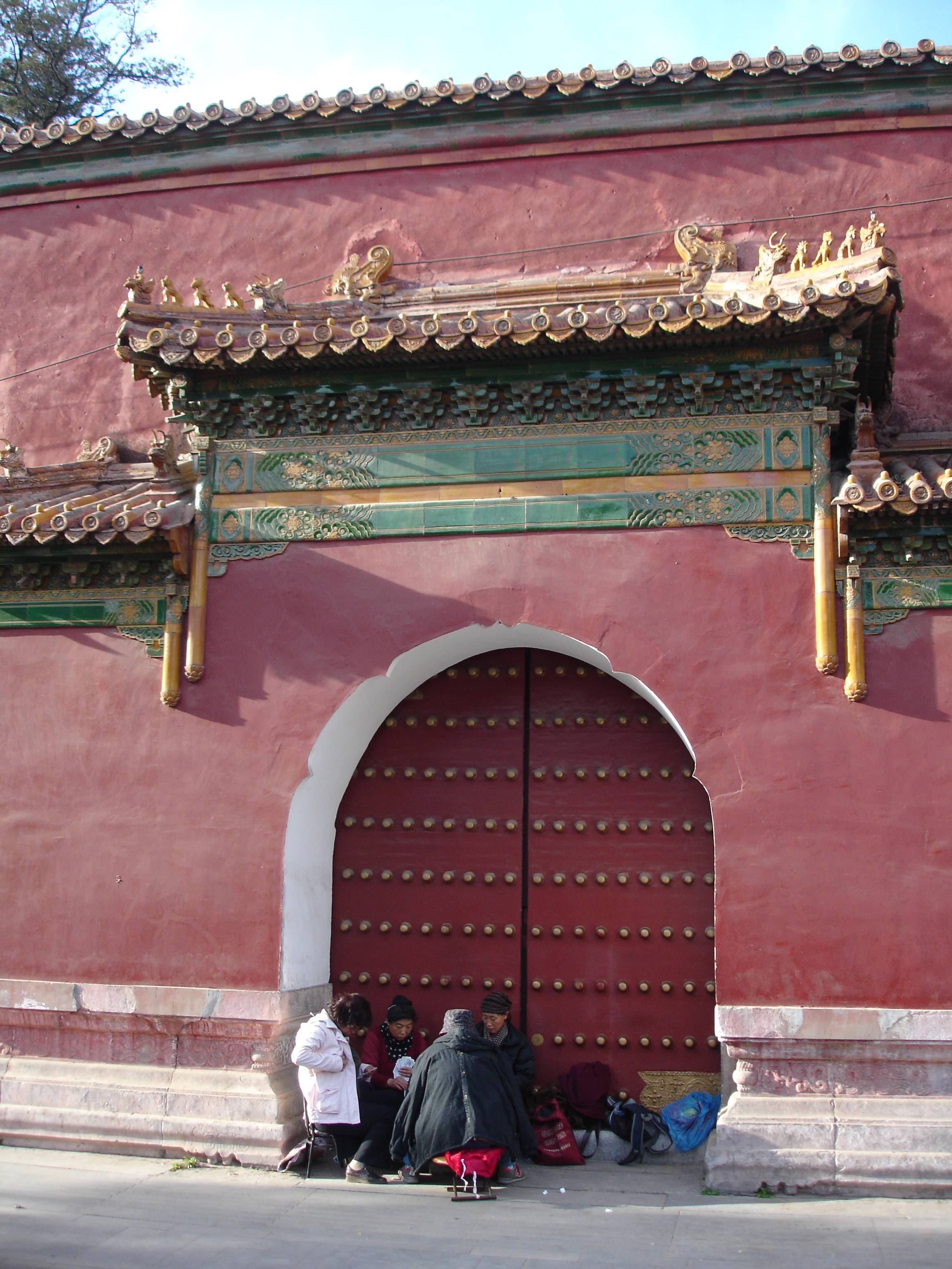 People playing cards in Beijing, China